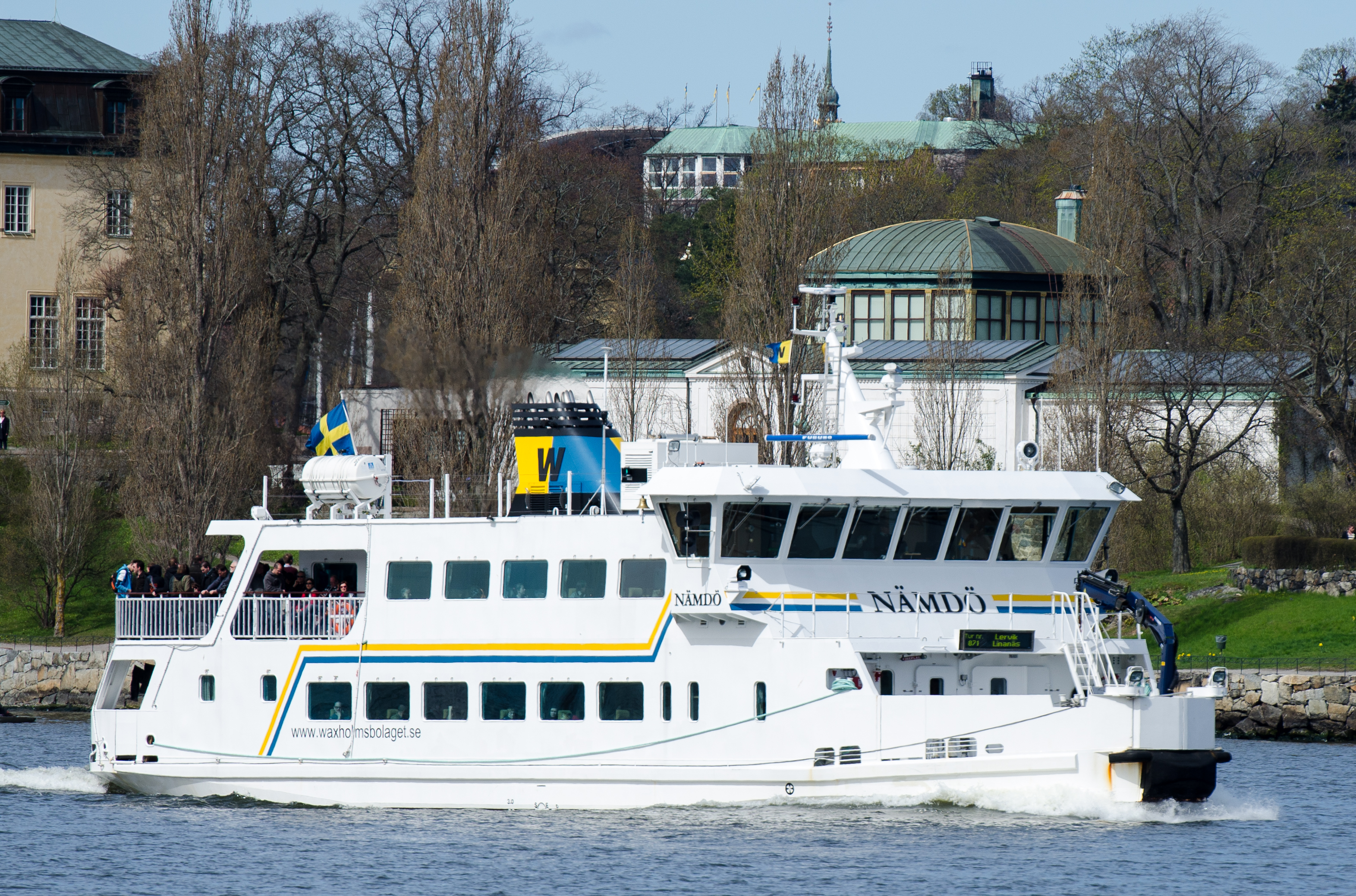 M/S Nämdö.